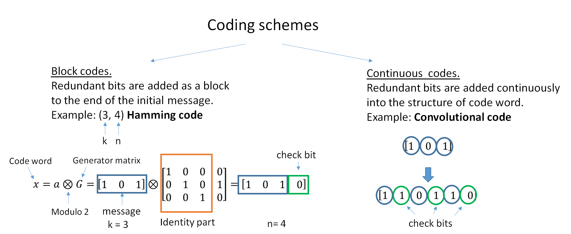 Two large groups: block and continuous codes.